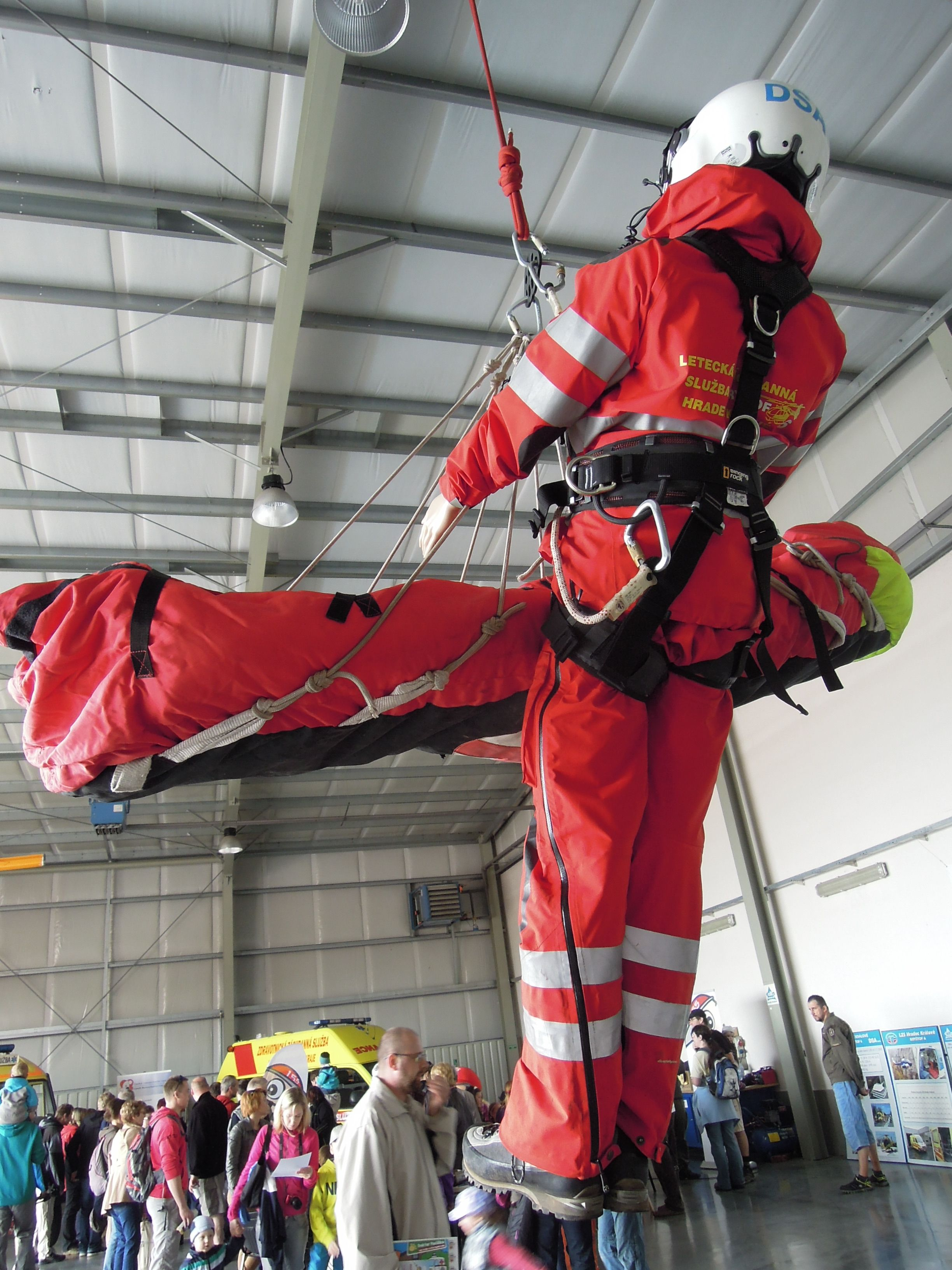 Paramedic of helicopter emergency medical services of Zdravotnická záchranná služba Královéhradeckého kraje, Czech Republic